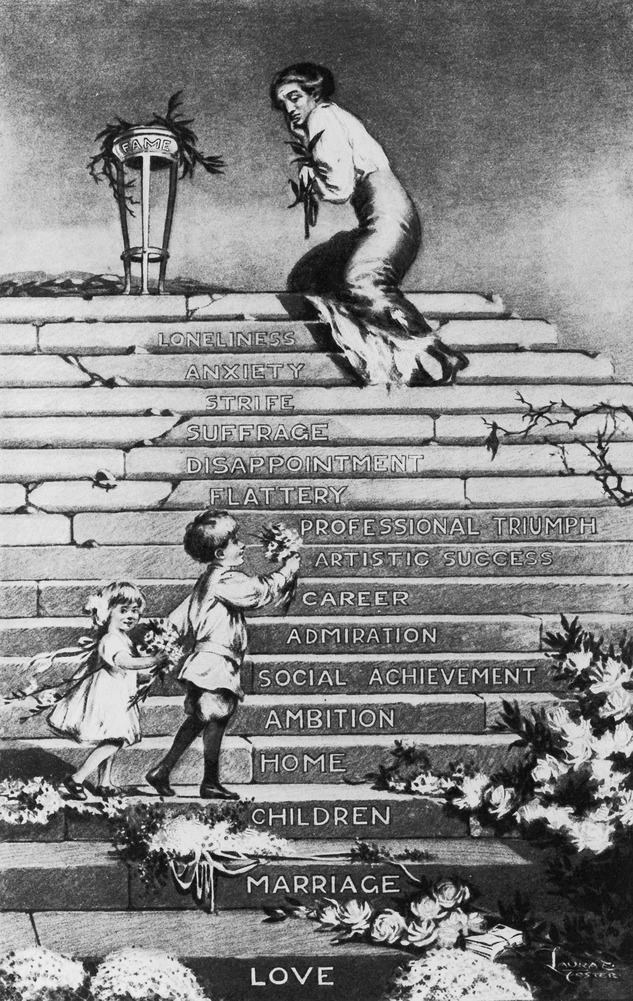 Title: Looking backward / Laura E. Foster. Abstract/medium: 1 photomechanical print : halftone.